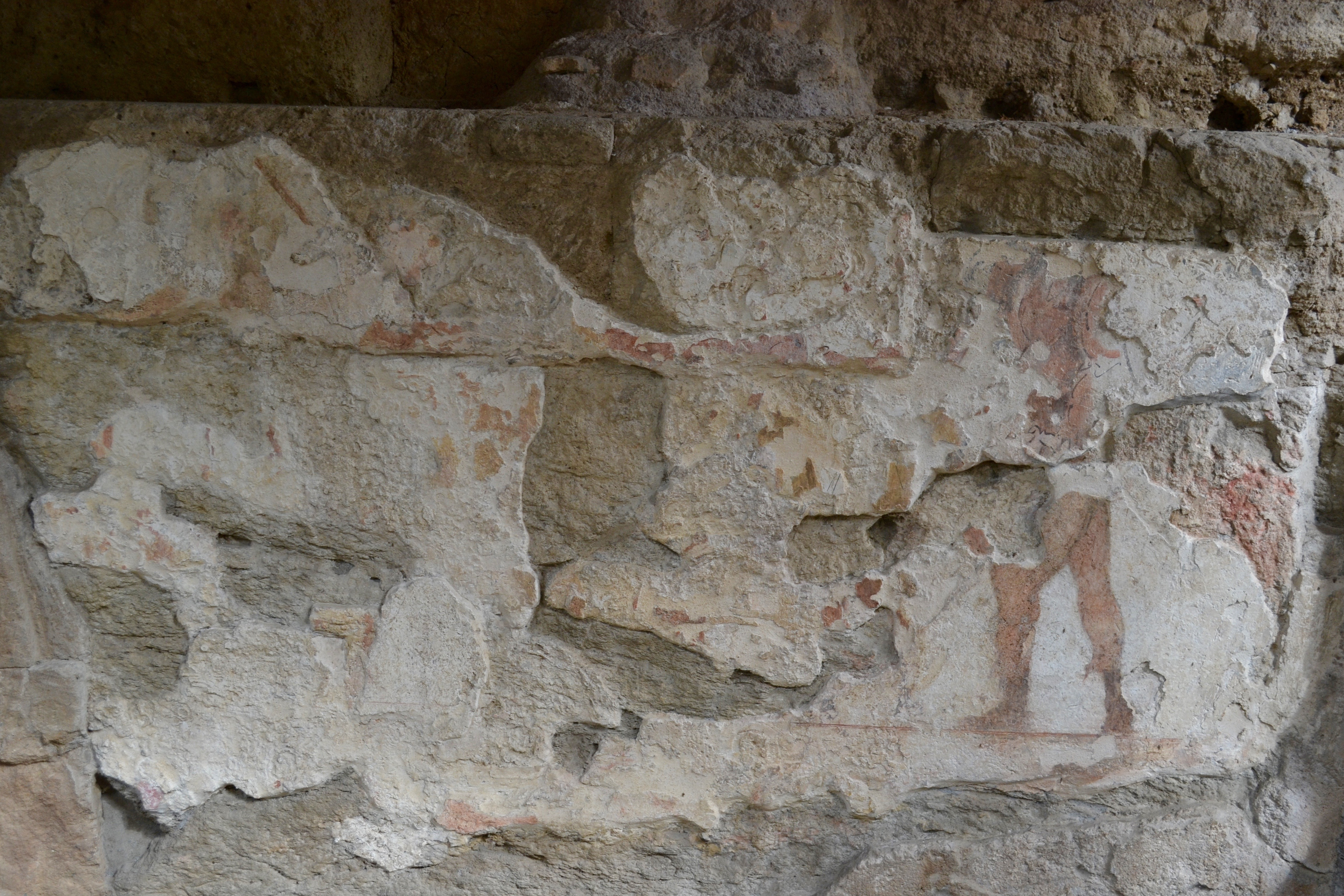 Processional scene of famous ancestors